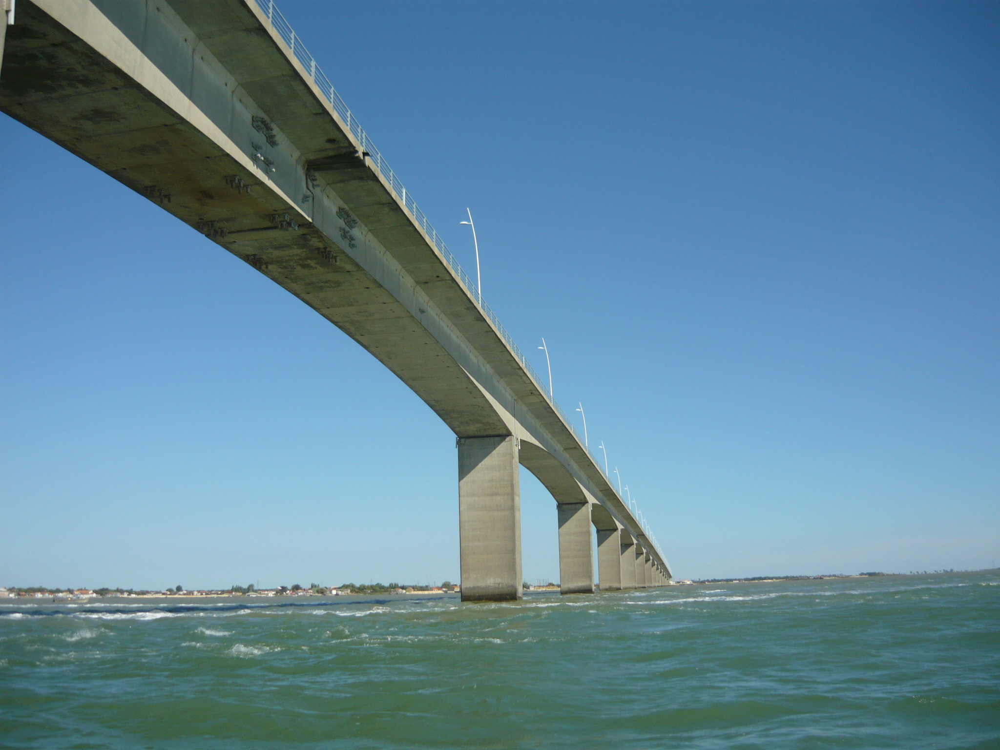 The bridge of Oléron.